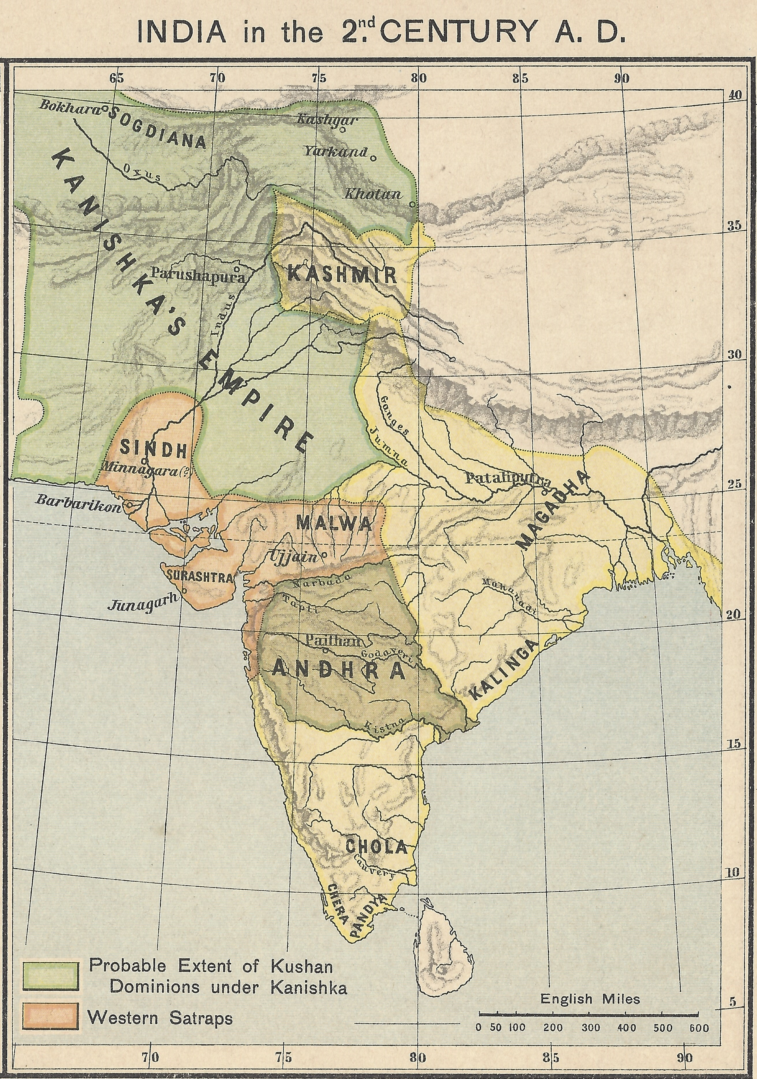 A high-resolution map of India in the 2nd Century C.E. from Joppen's Historical Atlas of India, 1907, showing the Kushan empire during Kanishka's reign